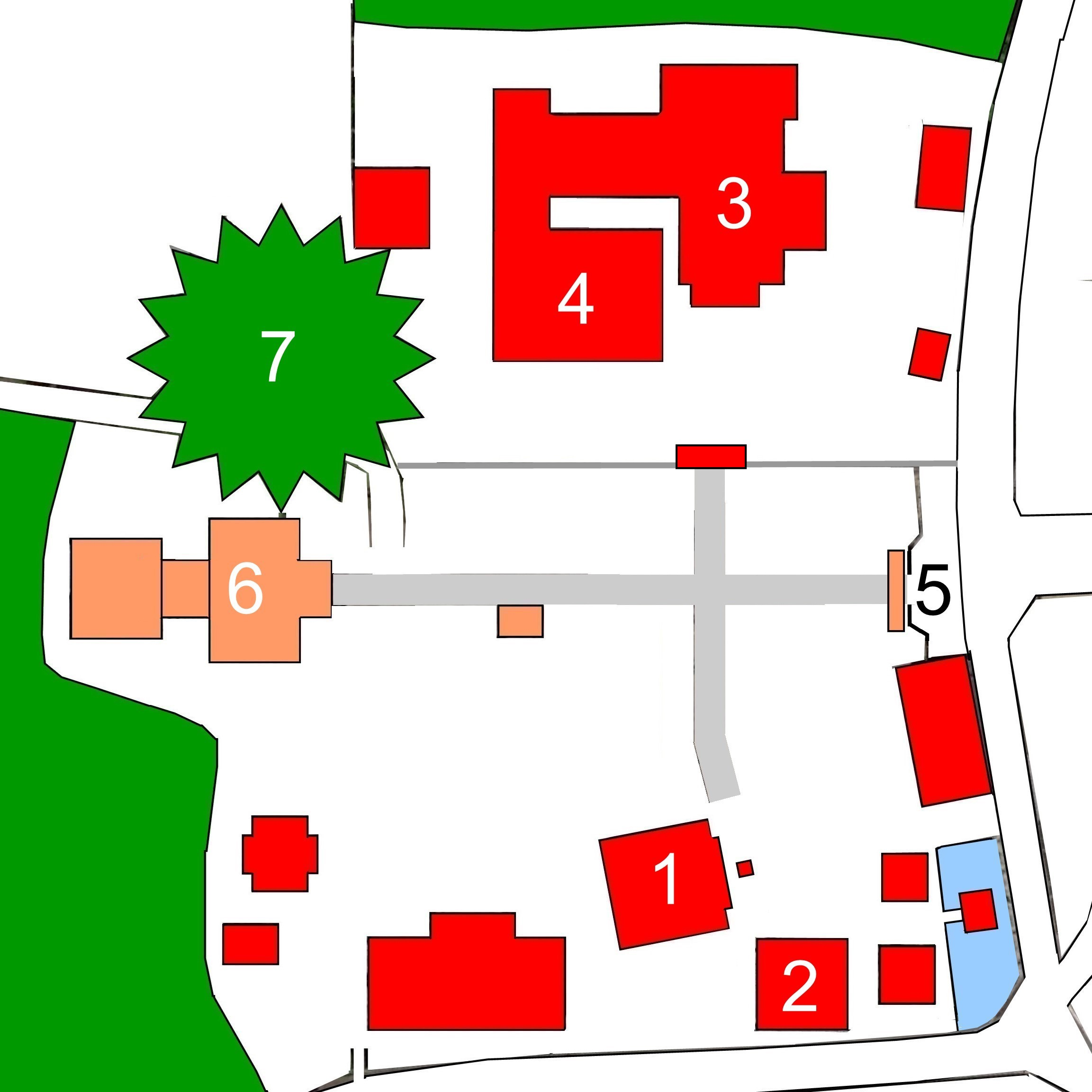 Layout of Tennô-ji temple at Sakaide, Kagawa-Pref. , Japan